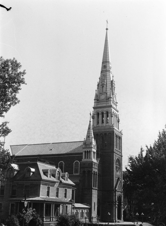 The church and rectory of St. Therese, Quebec.